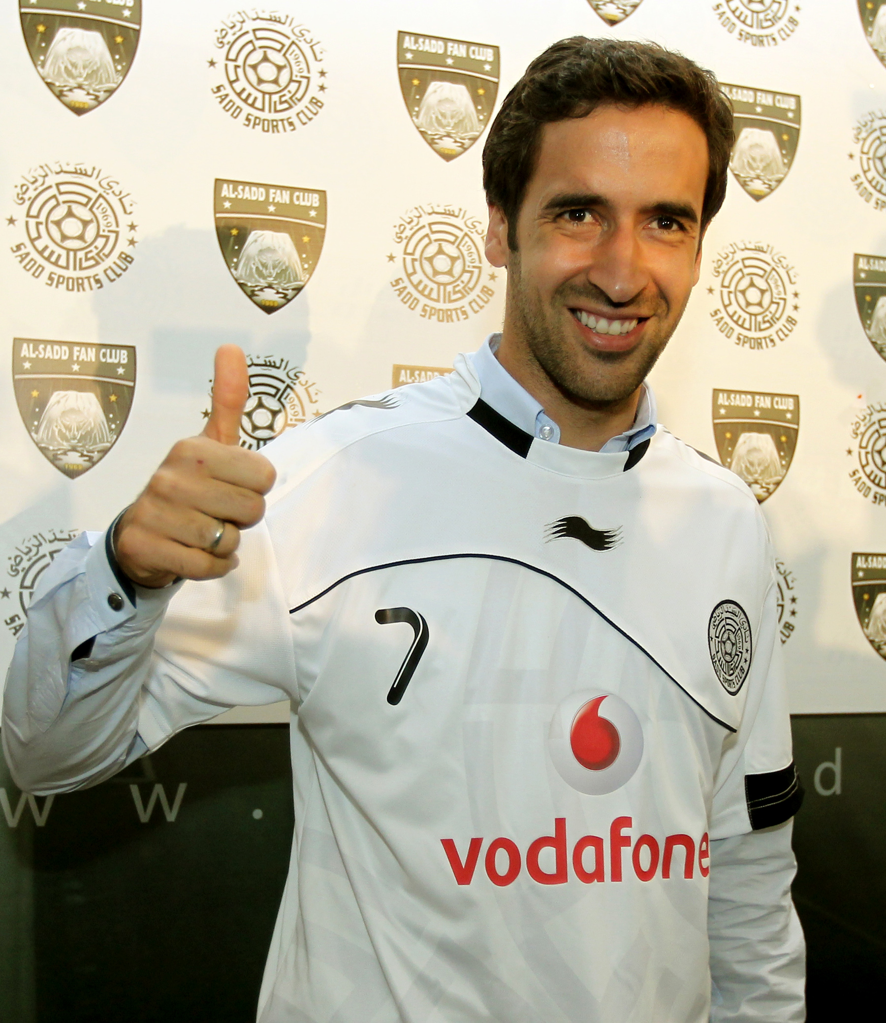 Raúl González Blanco